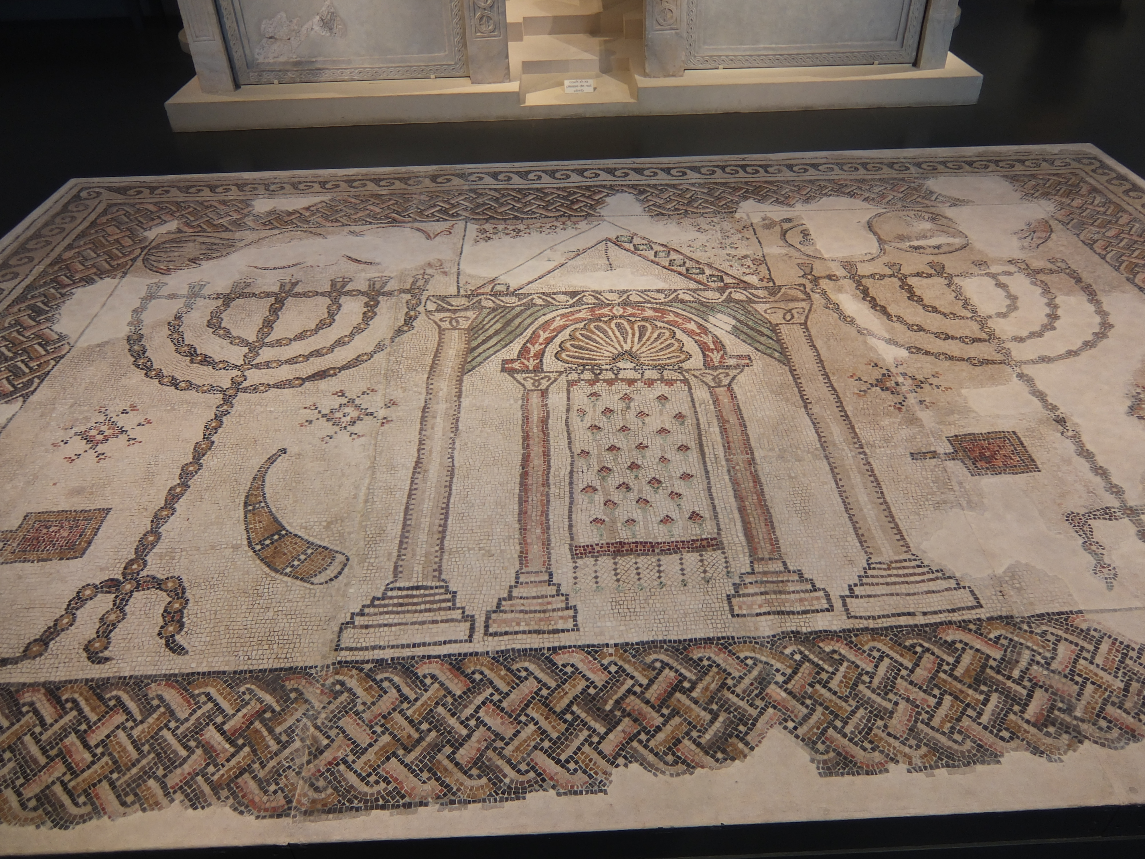 Mosaic discovered in Synagogue in northern Beit Shean, now at the Israel Museum